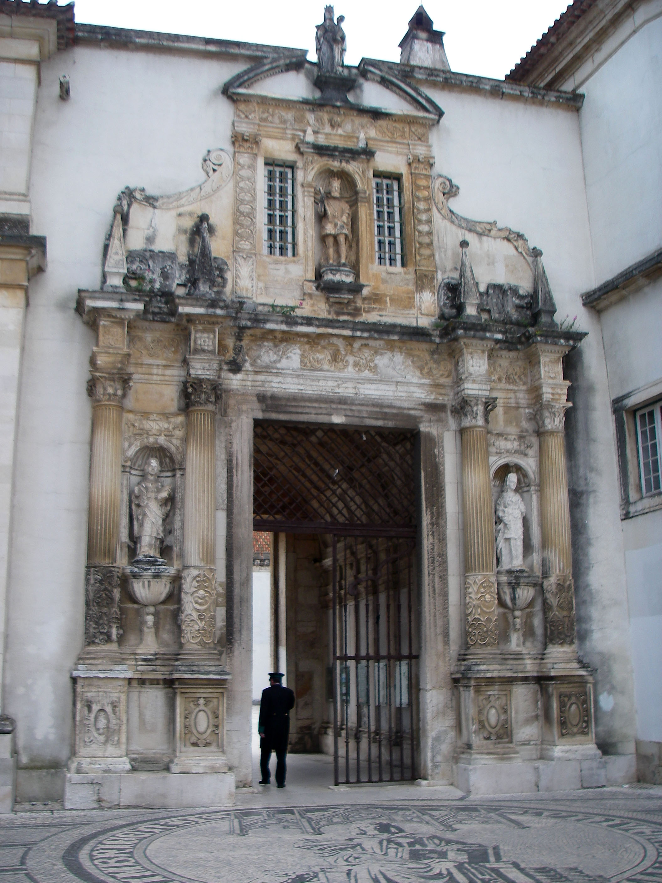 This file was uploaded for Wiki Loves Monuments in Portugal with the unique identifier 70318. This monument is classified as Monumento Nacional.